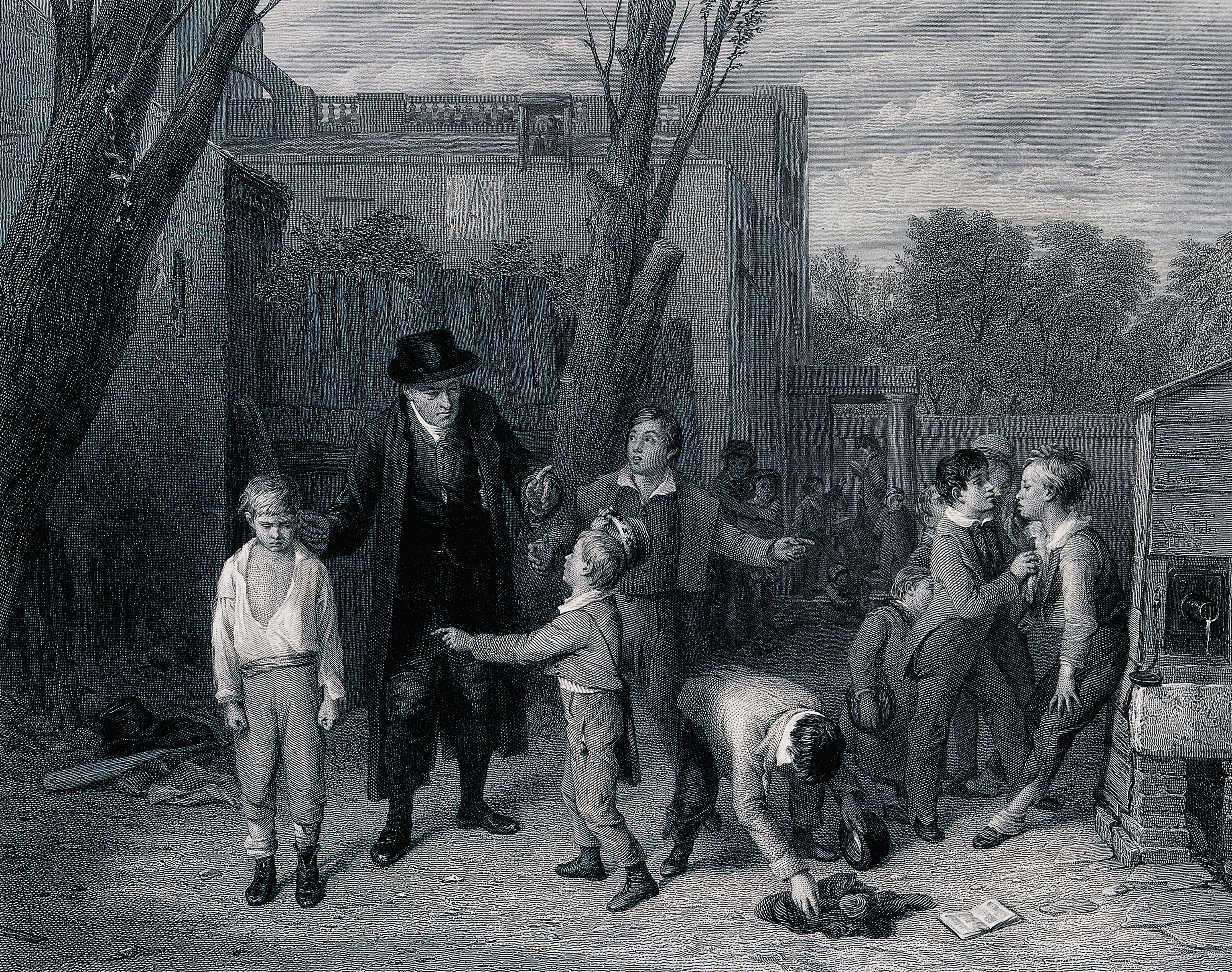 A man has separated two boys who were fighting in the playground. Engraving by L. Stocks after W. Mulready. Iconographic Collections